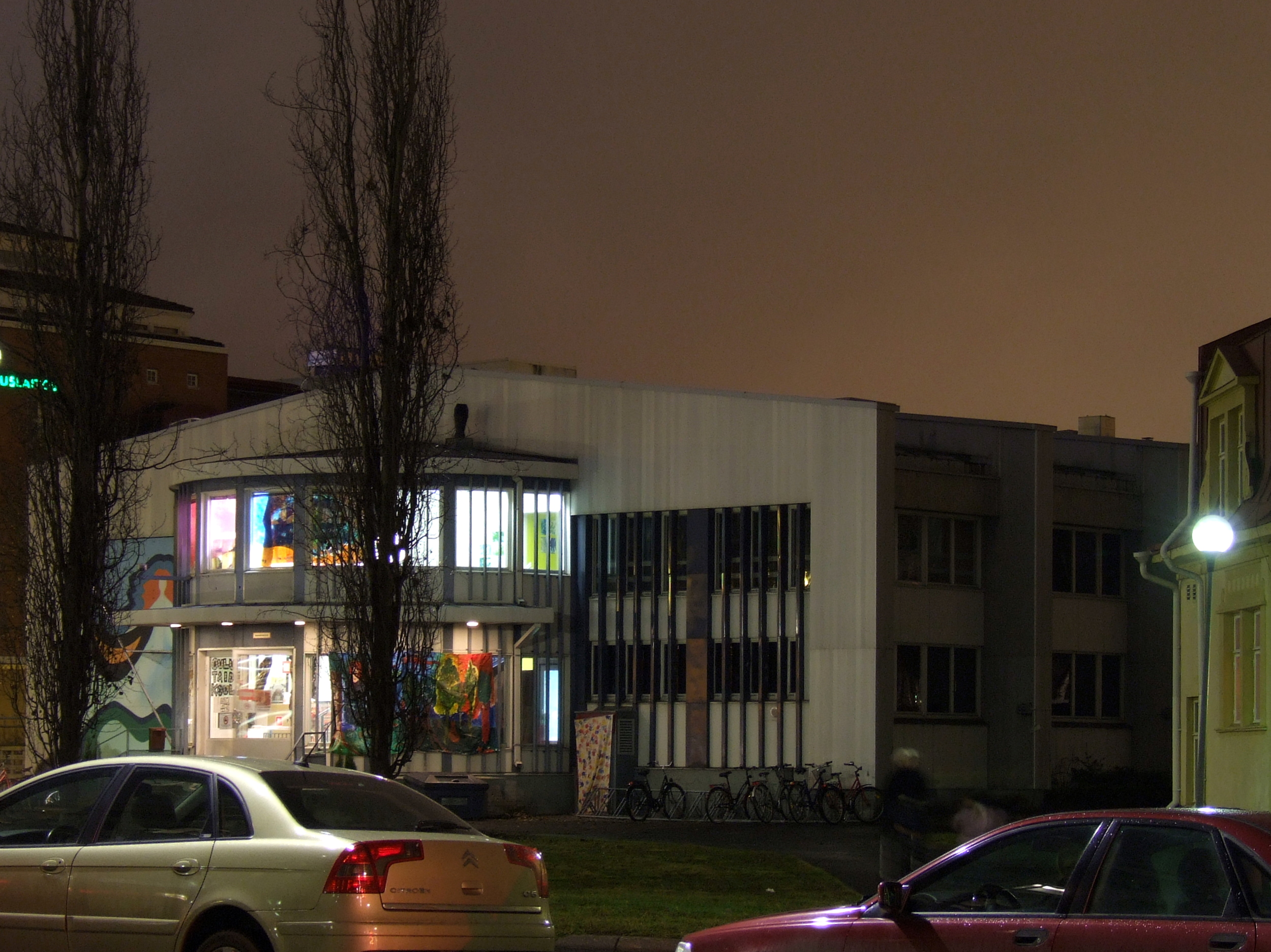 Oulu Art School